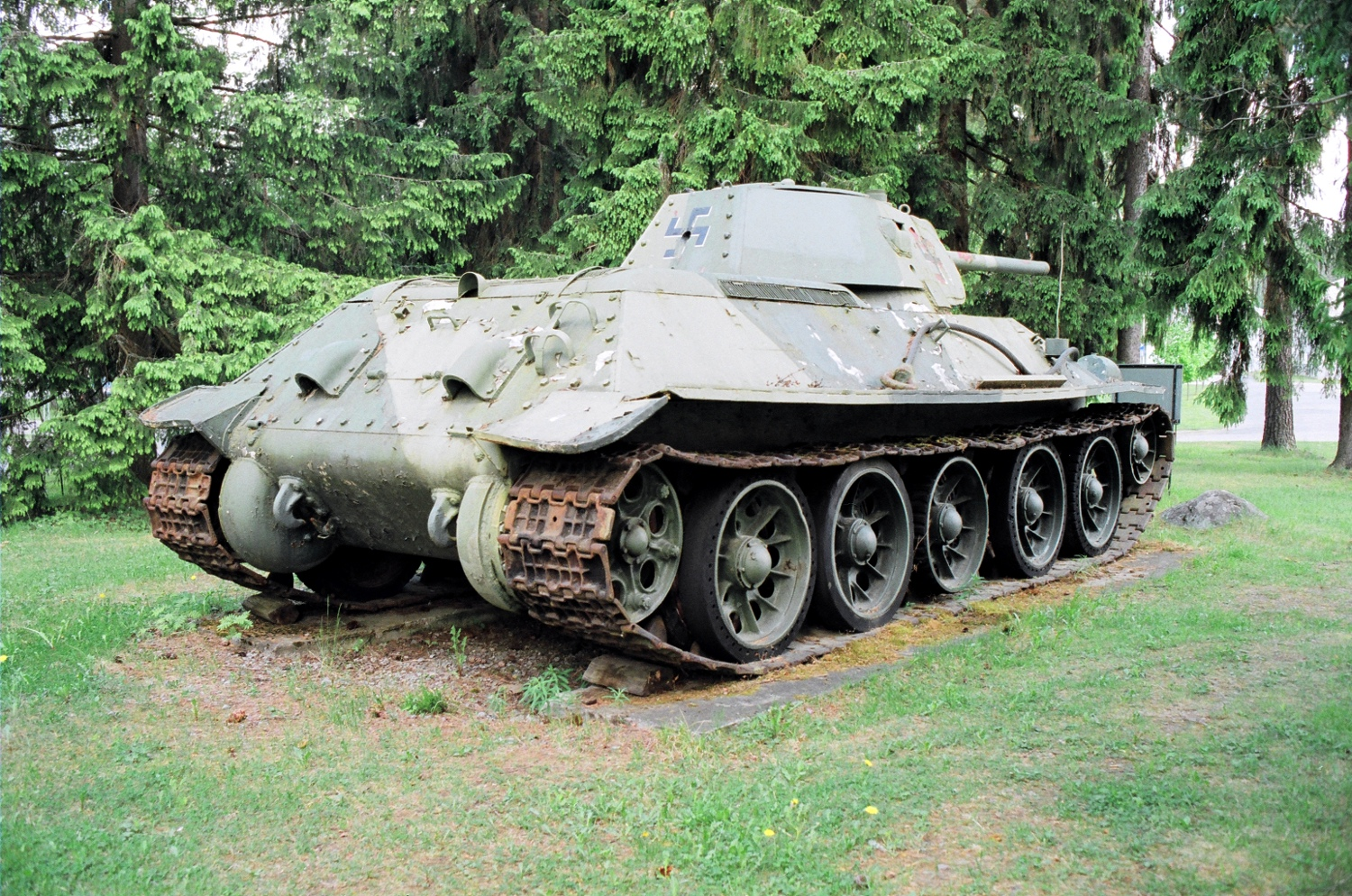 A T-34 tank in the Karkialampi barracks area in Mikkeli, Finland.